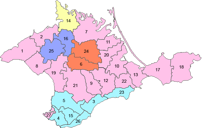 Map of Crimea with indicated raions with national status: Crimean Tatar regions in light blue Jewish in indigo German in red Ukrainian in yellow